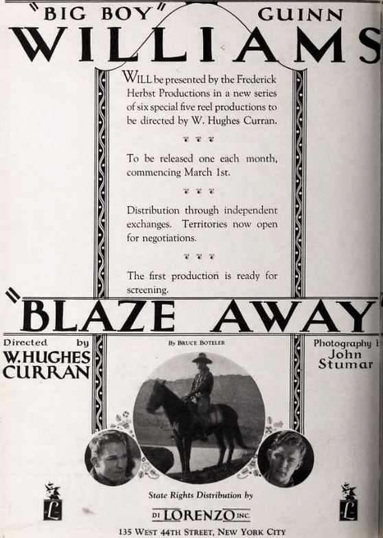 Advertisement for the American western film Blaze Away (1922) with Guinn "Big Boy" Williams, on page 10 of the March 4, 1922 Exhibitors Herald.